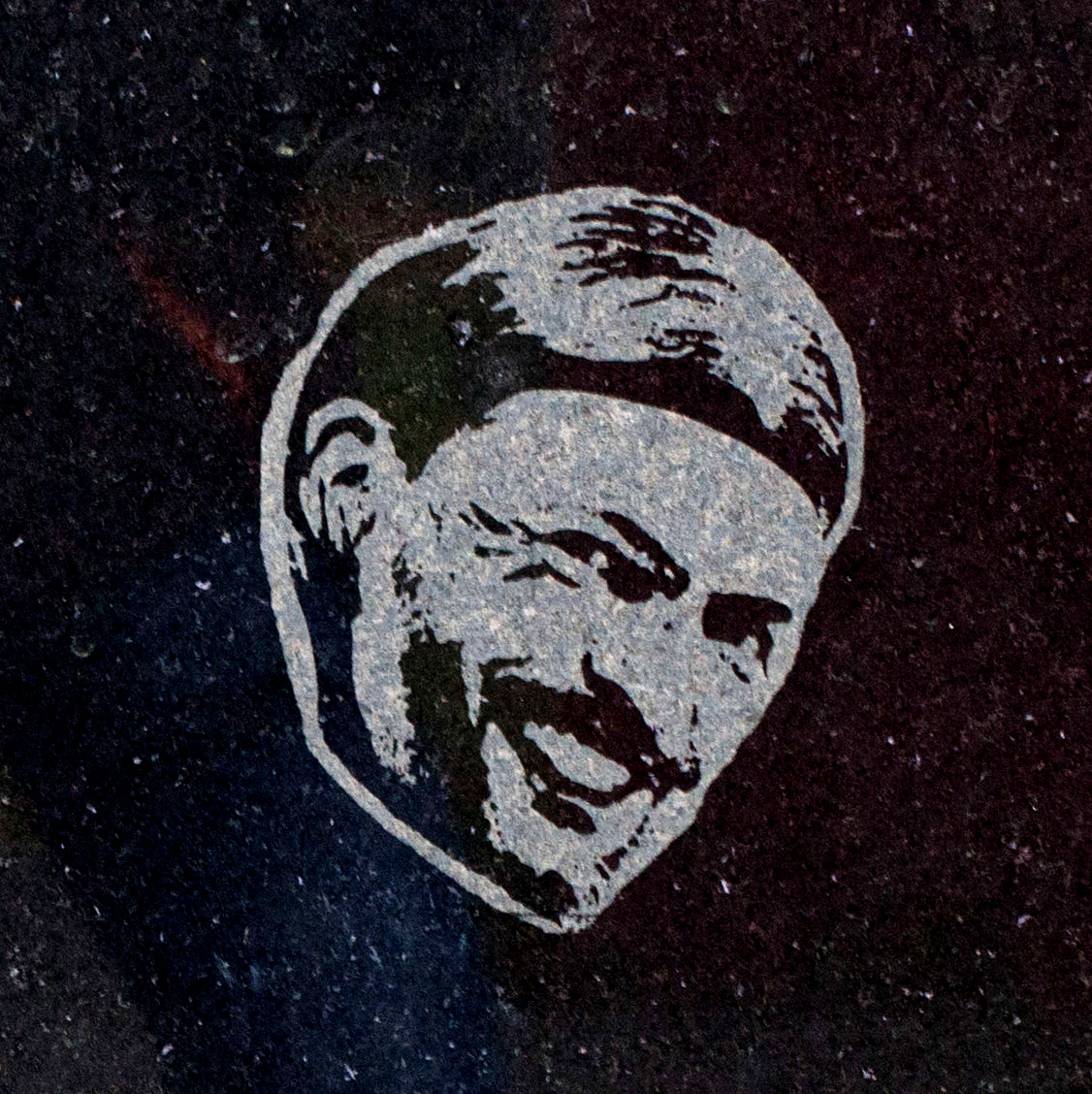 Playque to Czech goalkeeper Pavel Srniček on venue of FK Bospor Bohumín, Karviná District, Moravian-Silesian Region, Czech Republic